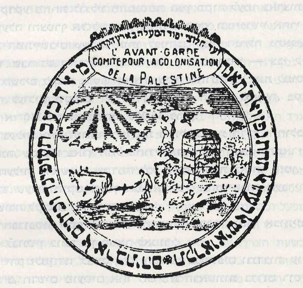 Rishon Le'zion stamp, Settlements in Israel